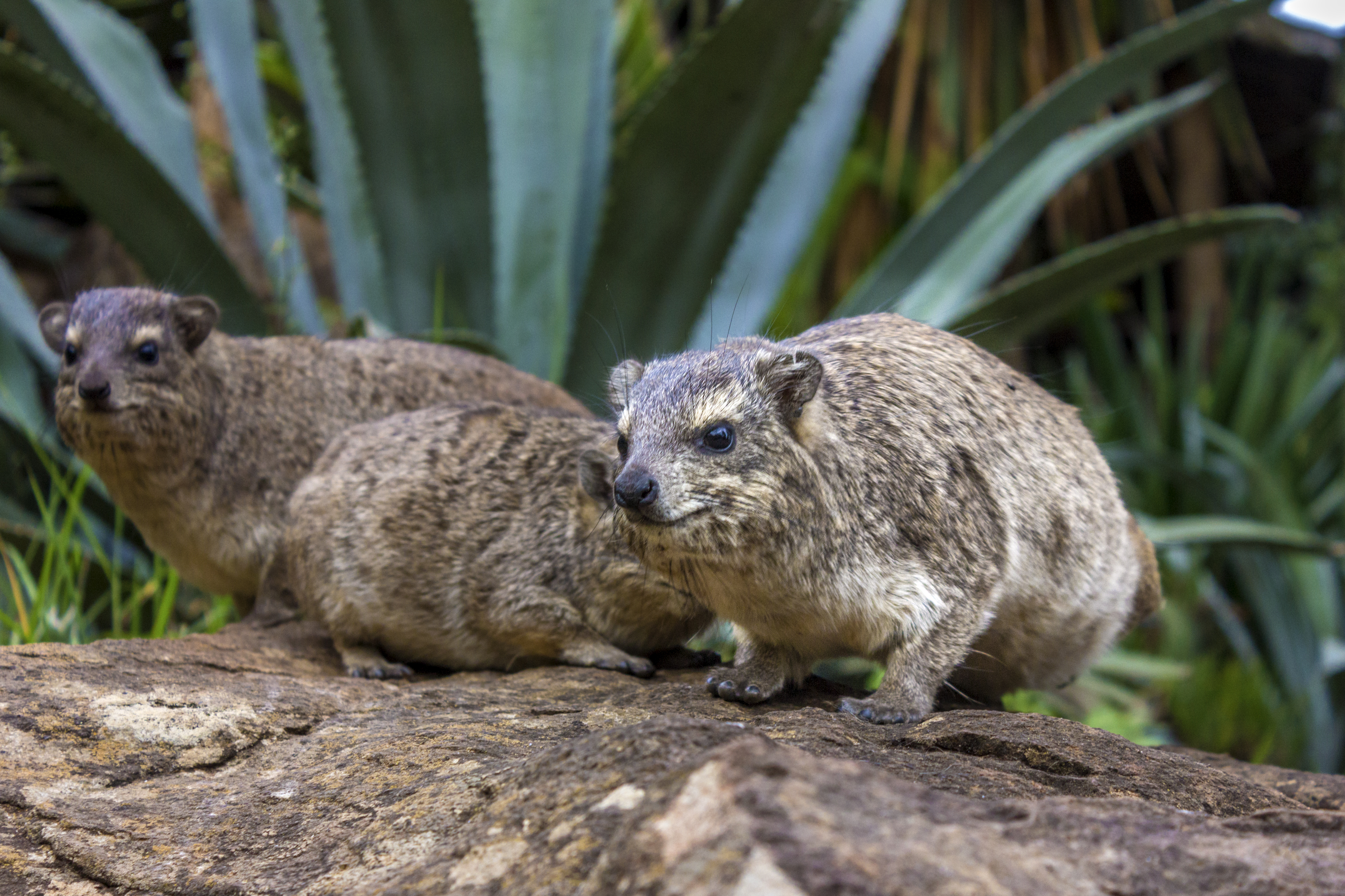 A Rock Hyrax Family